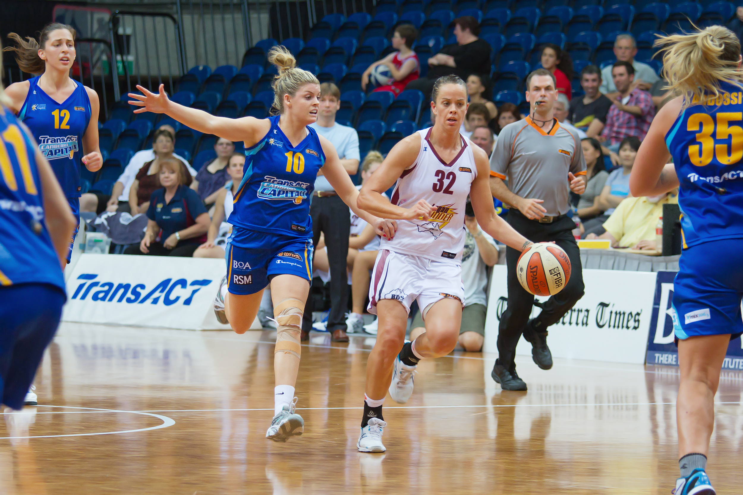 Canberra Capitals vs Logan Thunder, Australian Institute of Sport Training Hall, Canberra, Australia